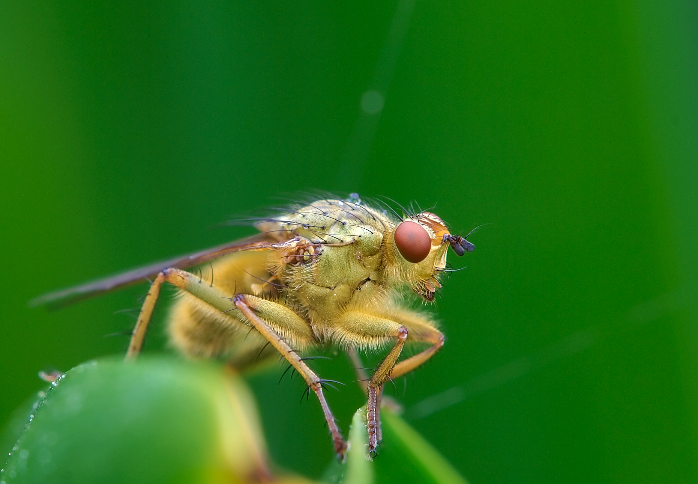 Scatophaga stercoraria